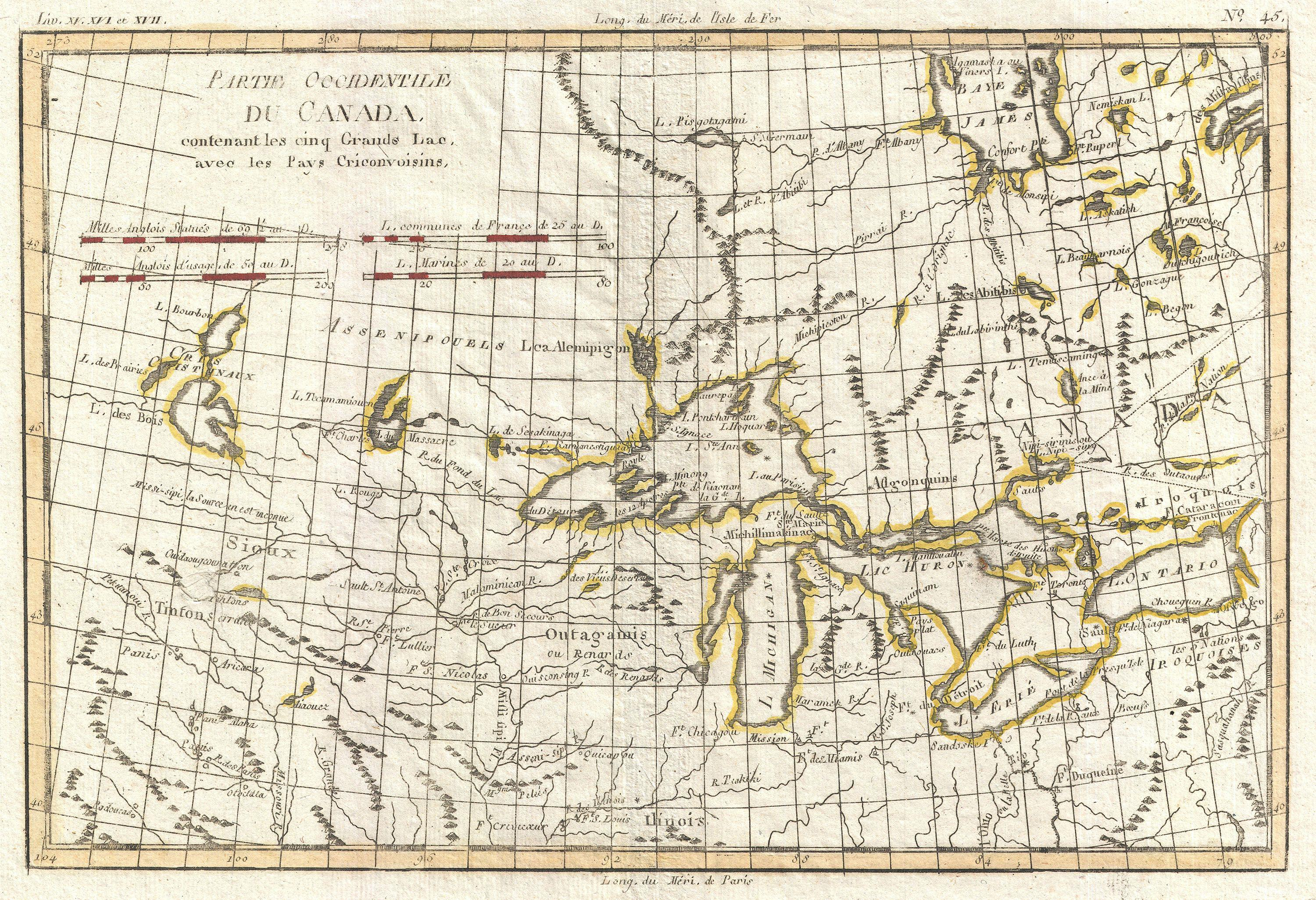 An extremely attractive example of Rigobert Bonne's c. 1775 map of the Great Lakes and upper Mississippi Valley. A map of considerable importance, this map was constructed during a period of aggressive exploration into this region. The French and English in North America, jealous of Spain's access to the Pacific via Mexico and Central America, were actively seeking their own westward passage'. By this time notions of a Northwest Passage through the Arctic were largely dismissed. Instead merchants and explorers turned their eyes inland towards the great system of Lakes and Rivers that filled the North American interior. With no concept that the vast barrier of the Rocky Mountains stood in their way - the idea that a river route to the Pacific was not only reasonable, but a likely possibility. One of the more likely courses for this route is shown here - one can pass through the Great Lakes and, roughly following the current US-Canada border, pass upriver to Rainey Lake (L. Tecamamiouen)and then, through another River, to the Lake of the Woods (Lac des Bois), then, via another river, to (though it does not appear on this map) Lake Winnipeg. Here the water route westward ends - though at the time they didn't know it. Throughout this map, Bonne attempt to document rivers, mountains, forts, and American Indian tribes and villages with the most recent data obtainable. He identifies the lands of the Sioux, the Iroquois (Five Nations), the Algonquians, the Illinois, and many others. Chicago (Chicagou) and Detroit both appear as forts. The Great Lakes are mapped with a rough approximation of accuracy, though Lake Superior does include a number of apocryphal islands including I. Ponchartrain and I. Minong (also known as Phillipeaux). These islands first appeared Bellin's mapping of the region in 1750s and continued to appear until the 1820s. Drawn by R. Bonne and published in the 1780 edition of Atlas de Toutes les Parties Connues du Globe Terrestre ...